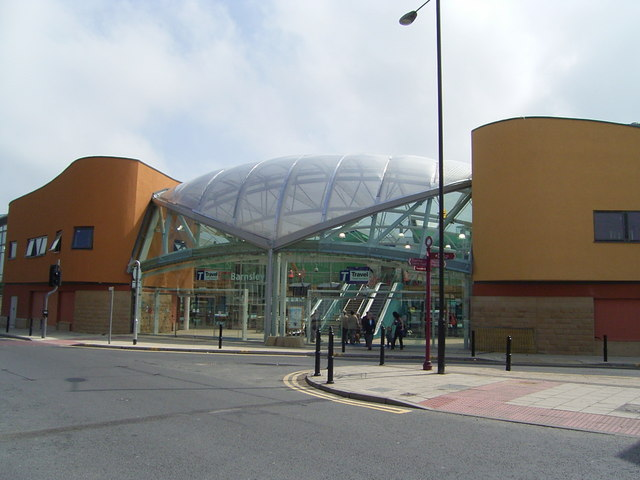 Barnsley Interchange Bringing Barnsley into the 21st century.